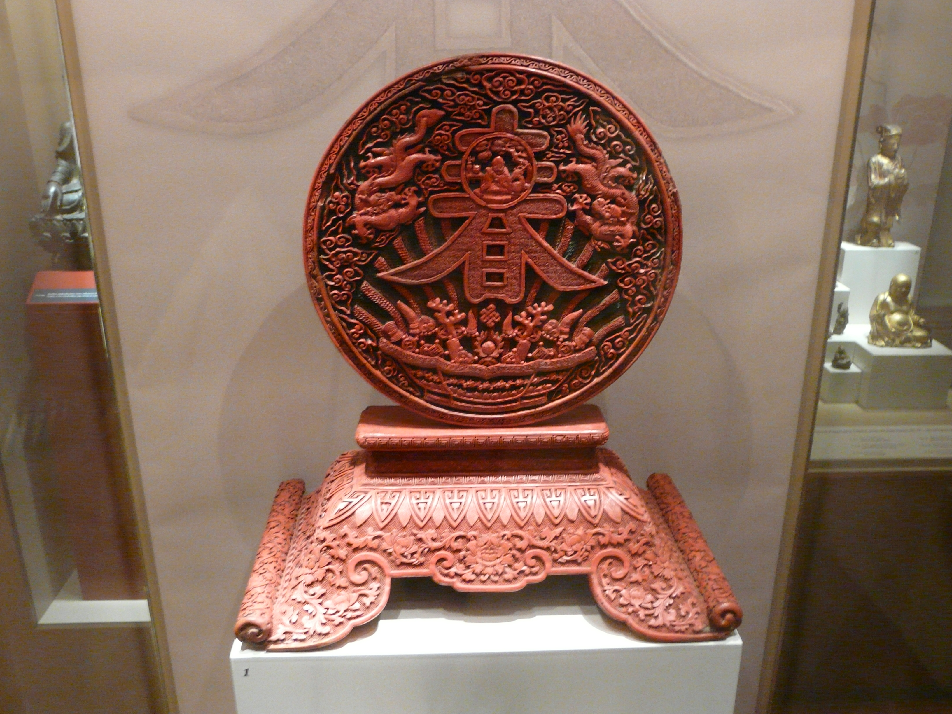 Museum of Asian art of Corfu. Corfu town.Corfu, Greece.